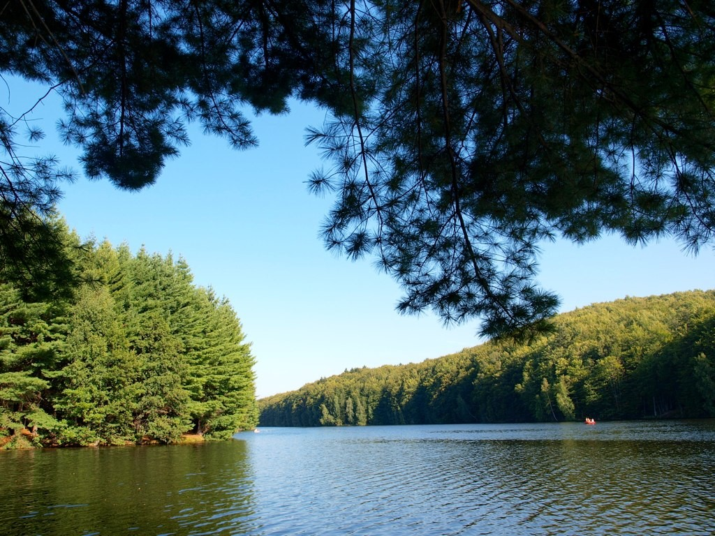 the Trei Ape lake in the Banat Mountains, Romania